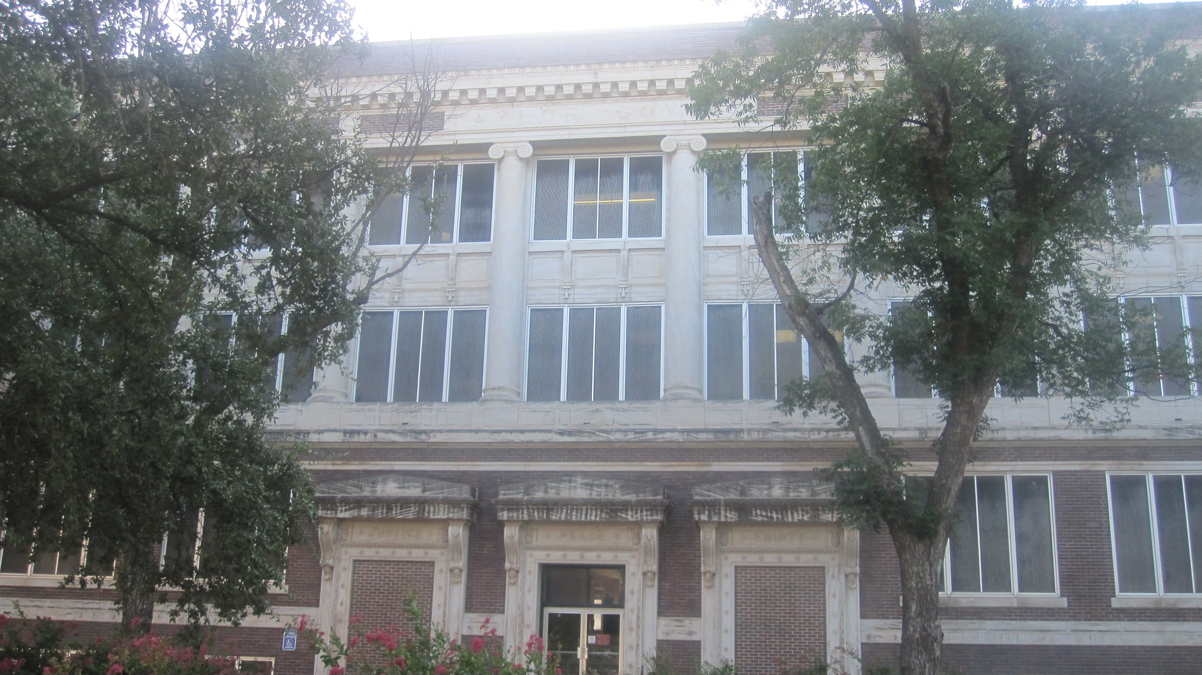 I took photo with Canon camera in Abilene, Texas.